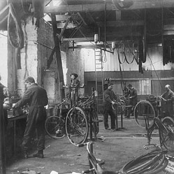 1890 - Septimus Jennings starts repairing bicycles as a hobby in Morpeth, Northumberland.